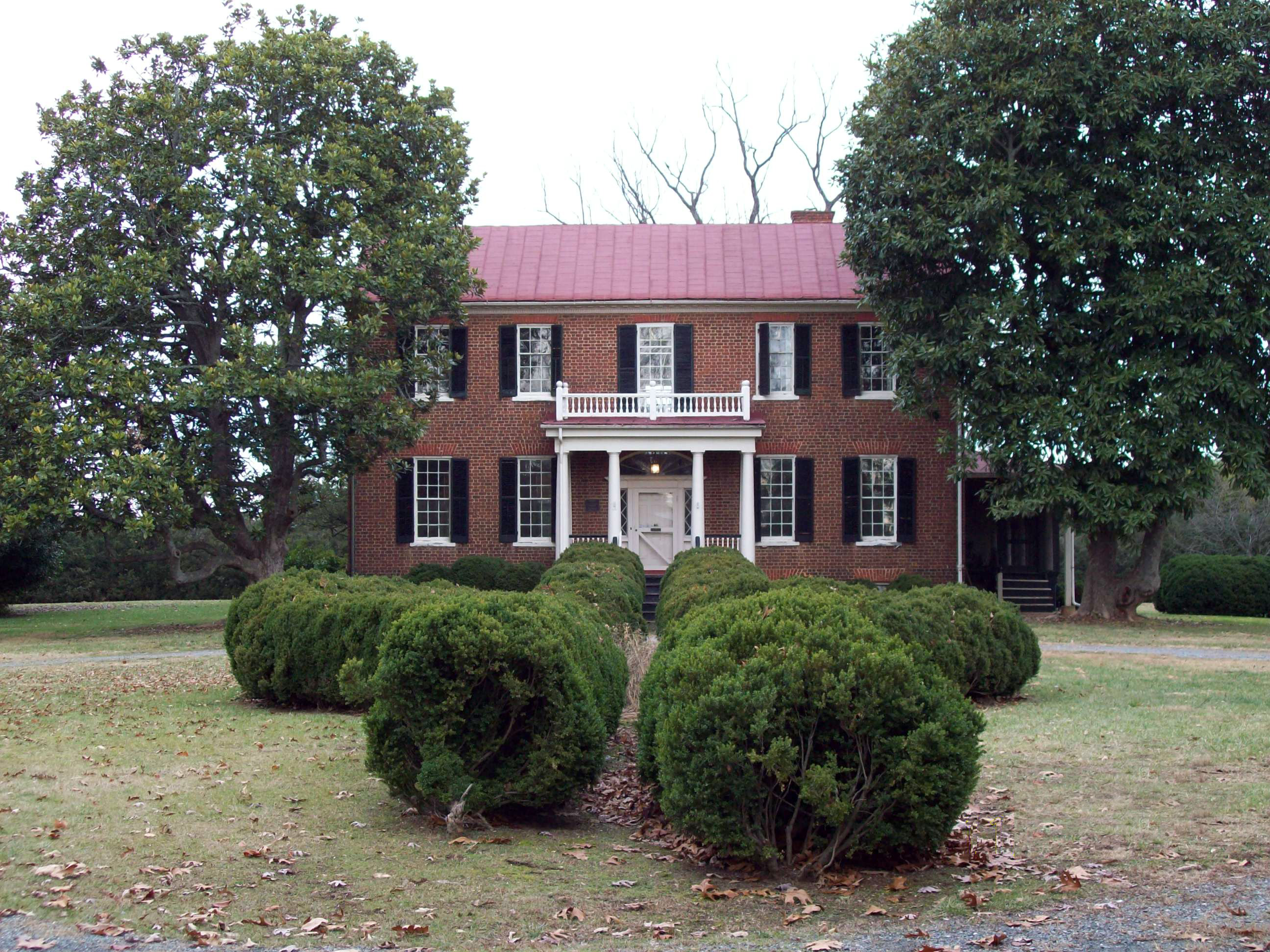 Sandusky, Lynchburg VA, November 2008